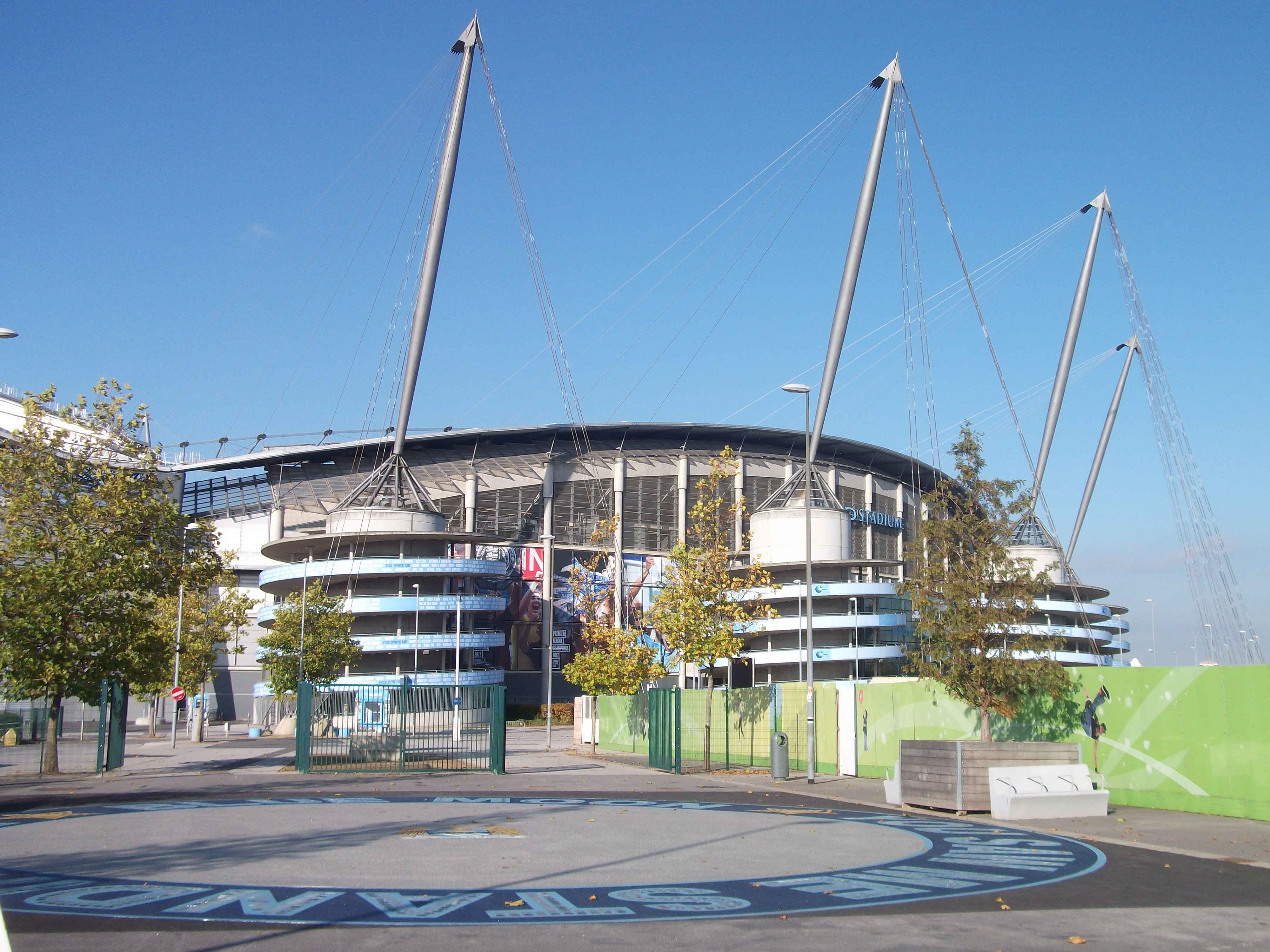 City of Manchester Stadium, October 2015